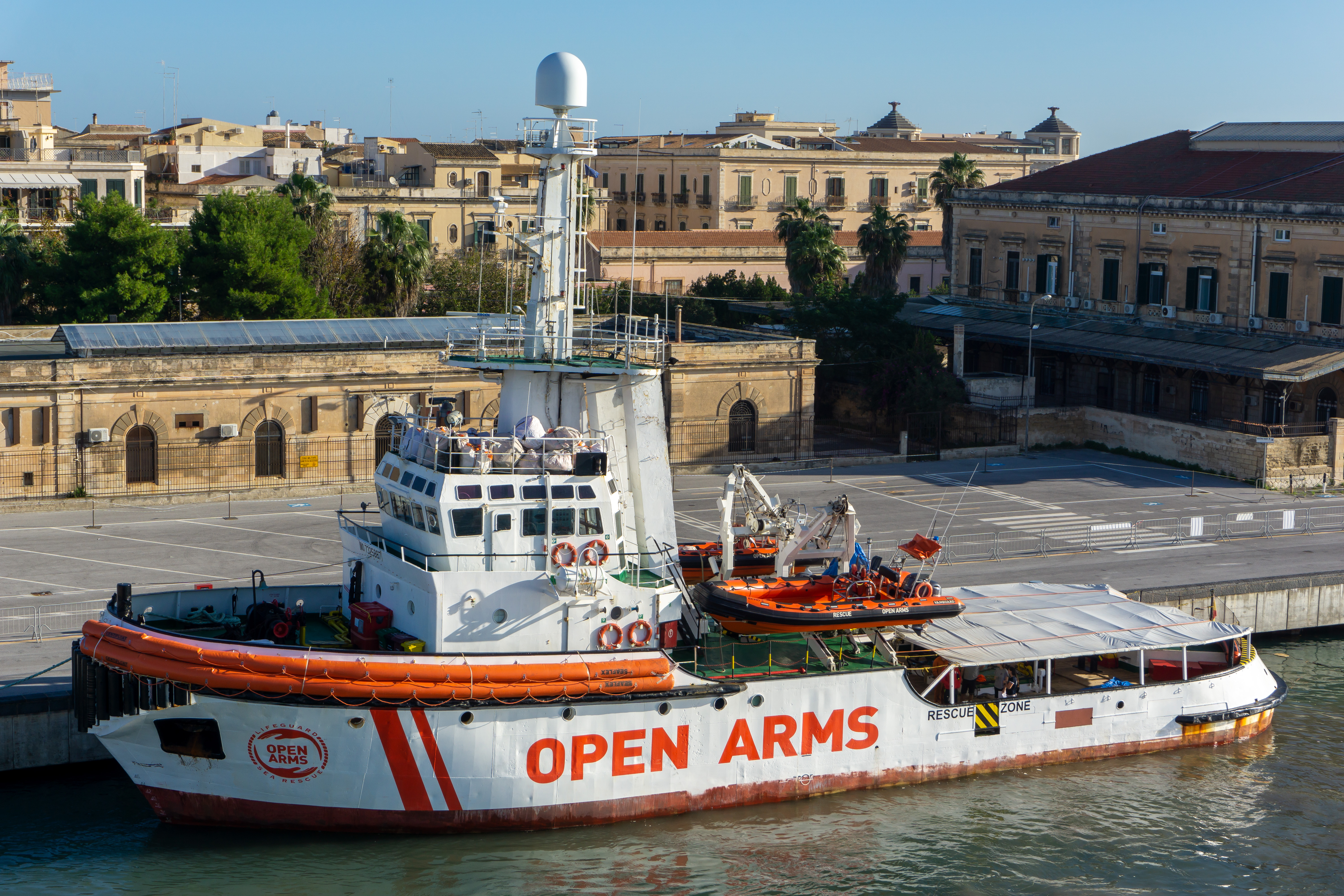 The ship Open Arms in the harbour of Syracuse, Sicily, Italy.